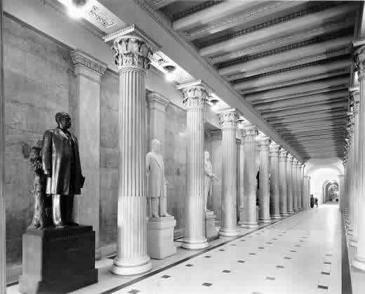 Photograph of Hall of Columns in the United States Capitol found at Architect of the Capitol site on the Hall of Columns.